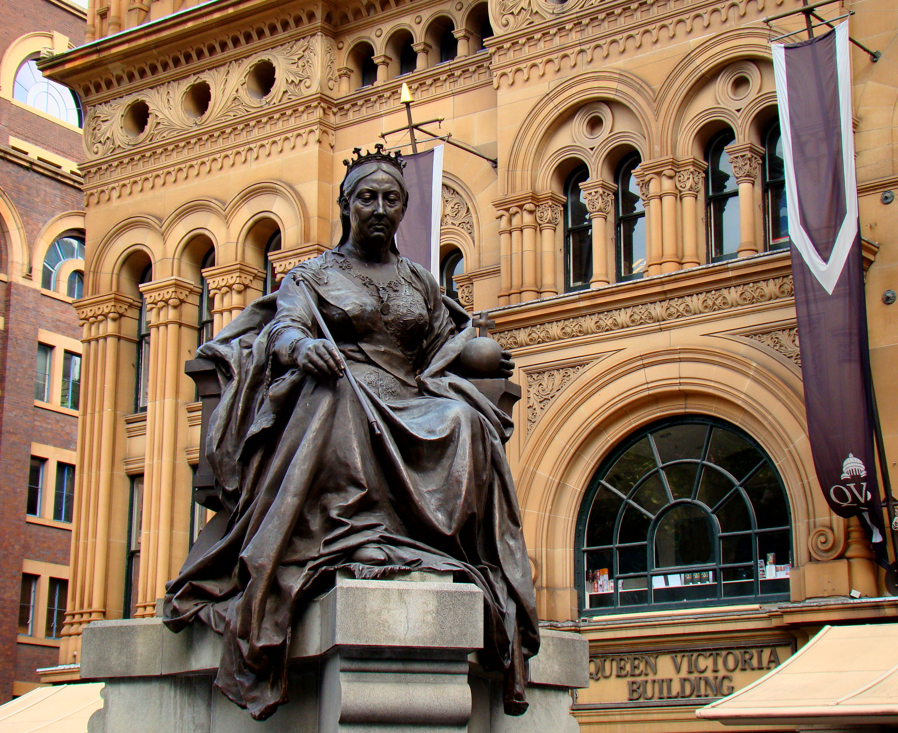 The Queen Victoria statue sculpted by John Hughes, located outside the Queen Victoria building in downtown Sydney, Australia.